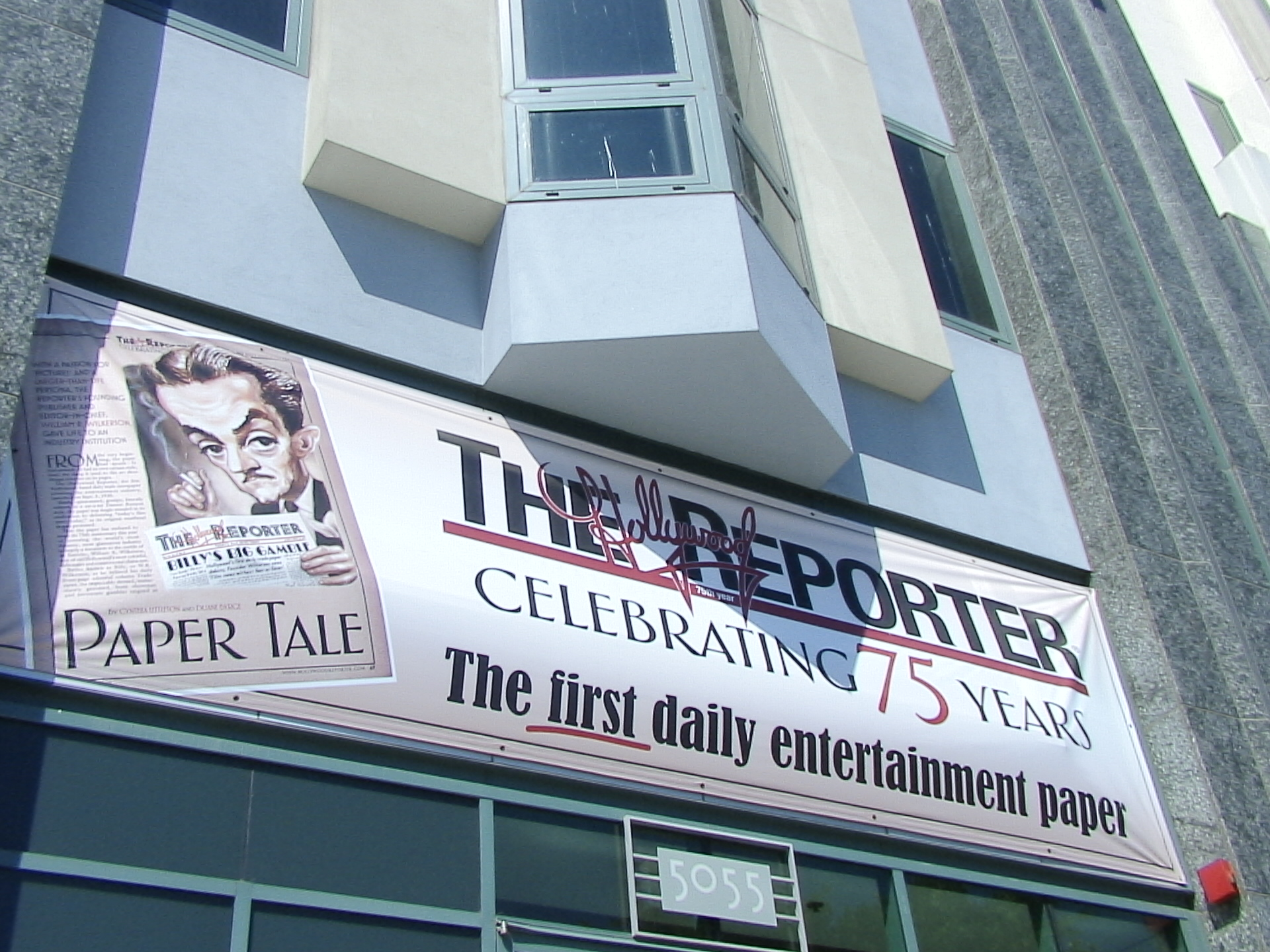 I'm an employee of The Hollywood Reporter (Jeong Kim, 323-525-2004), and I took this photograph in conjunction with a presentation project.